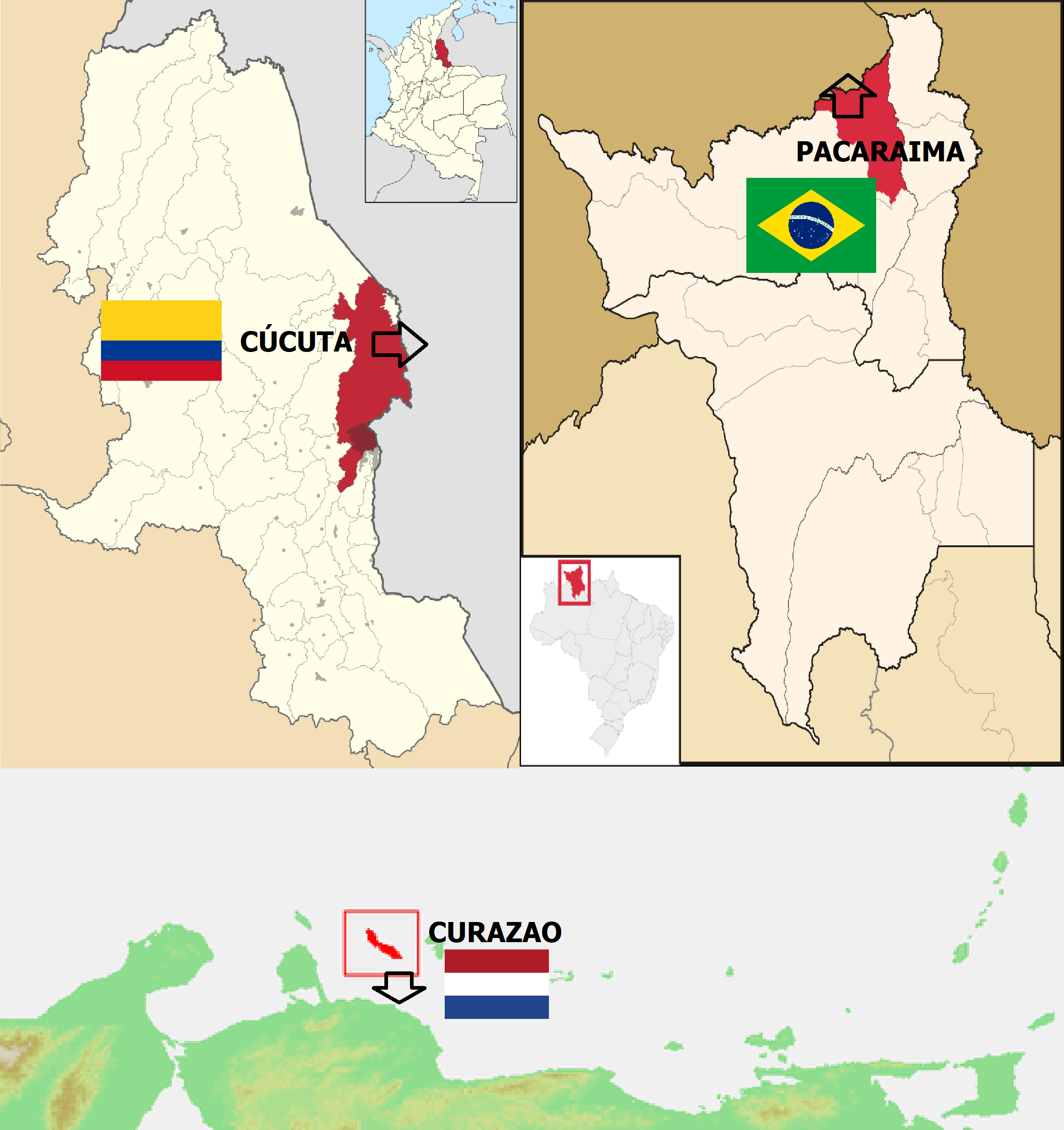 Map with humanitarian aid entry sites in Cúcuta, Colombia, Pacaraima, Brazil and Curaçao. This humanitarian aid was an initiative of the United States, Colombia, Brazil and the Netherlands.